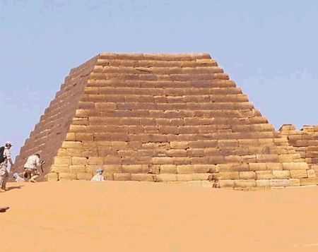 Pyramids of Meroe in Sudan. N4